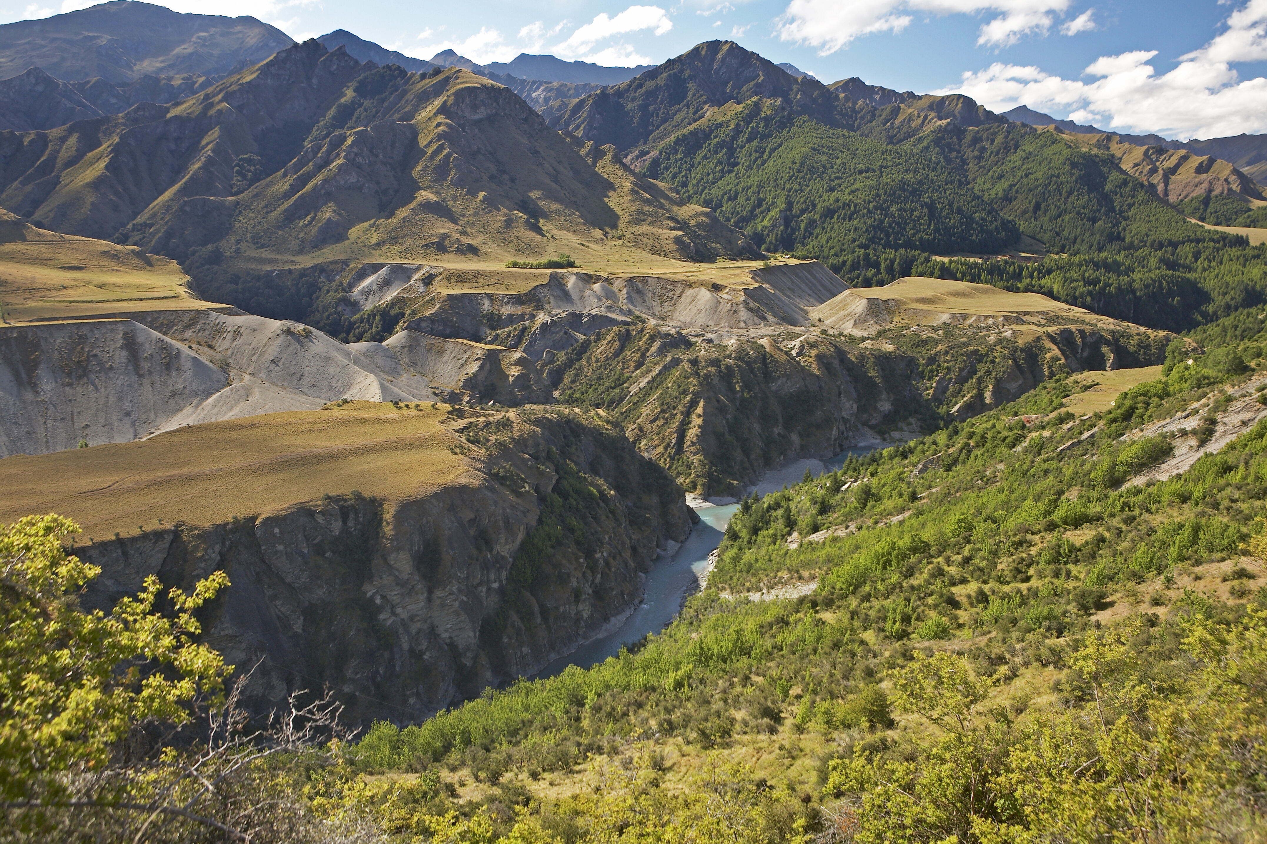 An overview of Skippers Canyon, seen from Maori Point Saddle. The Shotover River is icy blue.